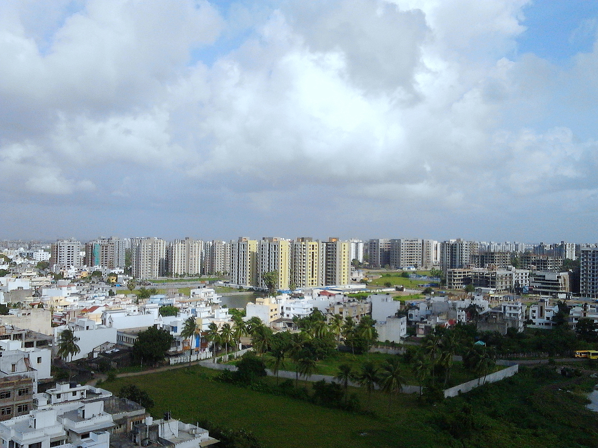 Bharthana Althan area